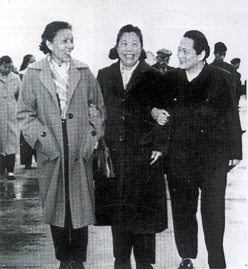 Soong Ching-ling, Deng Yingchao and Cai Chang